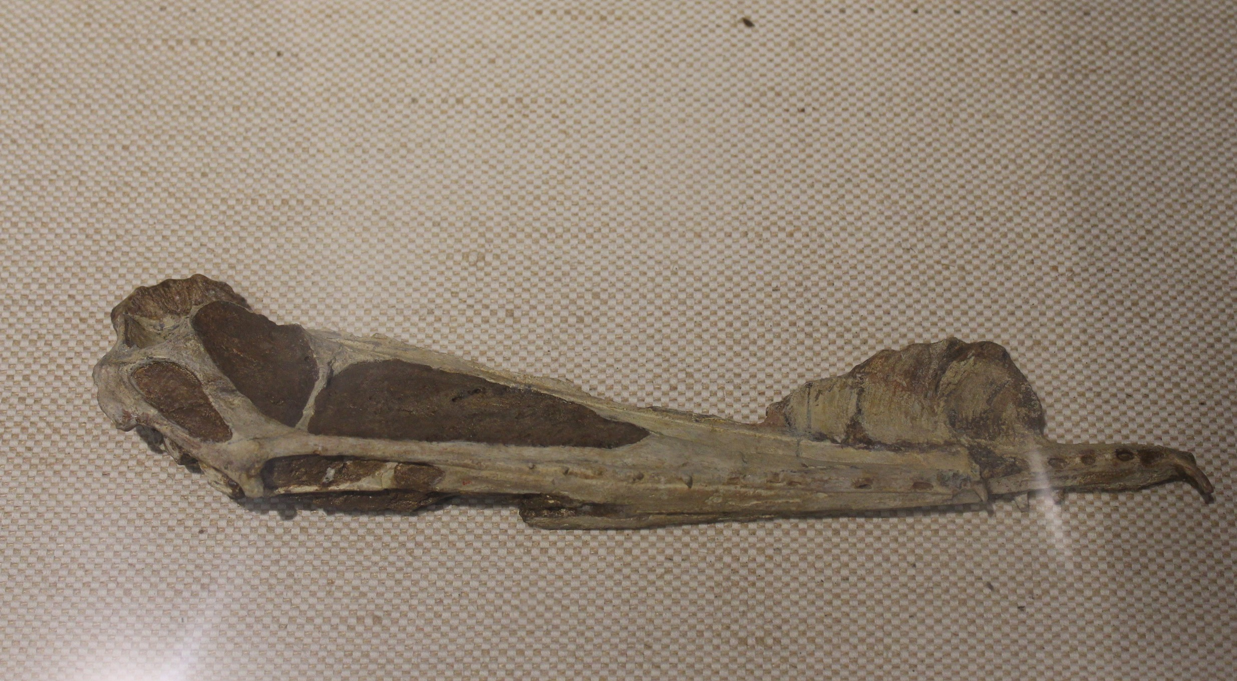 Paratype skull of Hamipterus tianshanensis on display at the Paleozoological Museum of China.